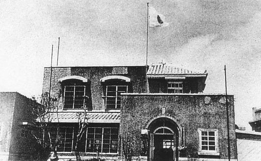 GOJ(Government of Japan) Liaison Office Building